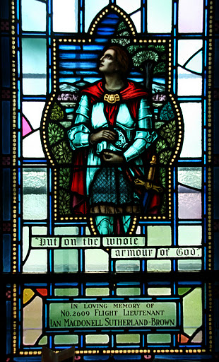 Royal Military College of Canada memorial window to Ian Sutherland Brown Sir Lancelot whole armour of God